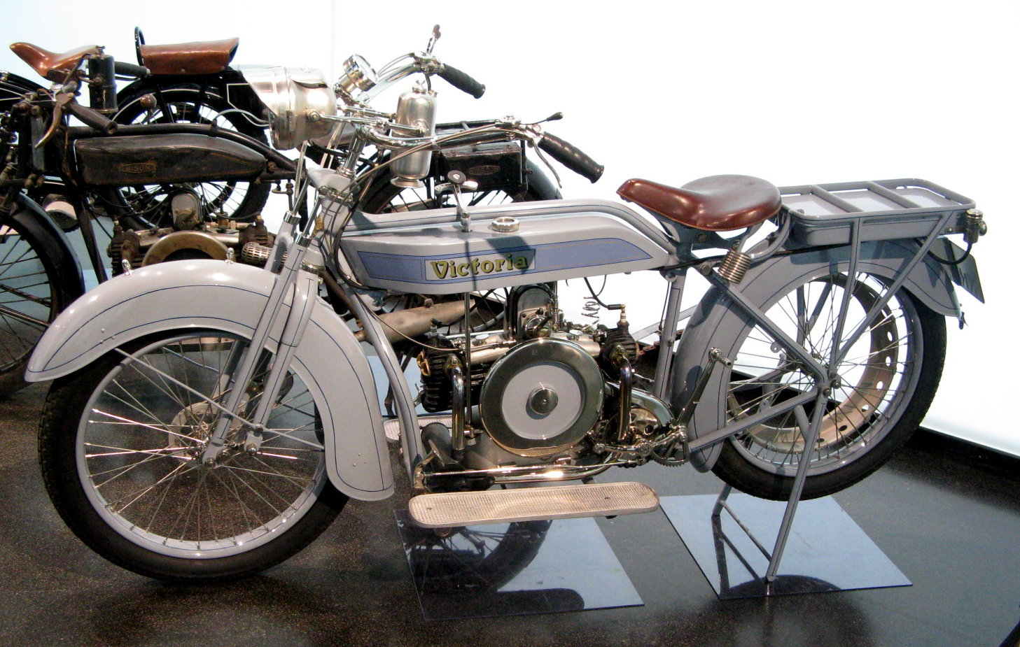 1920 Victoria motorcycle with BMW engine